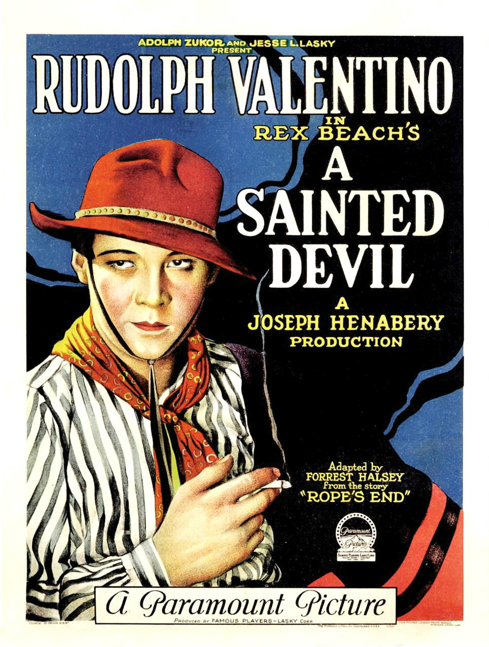 Poster for the 1924 film A Sainted Devil. The item has no copyright markings on it as can be seen in the links above. At bottom is Country of origin USA, Morgan Litho Co., Cleveland USA, and This poster leased from Famous Players Lasky Corp. and a number which probably pertains to the poster's print job.